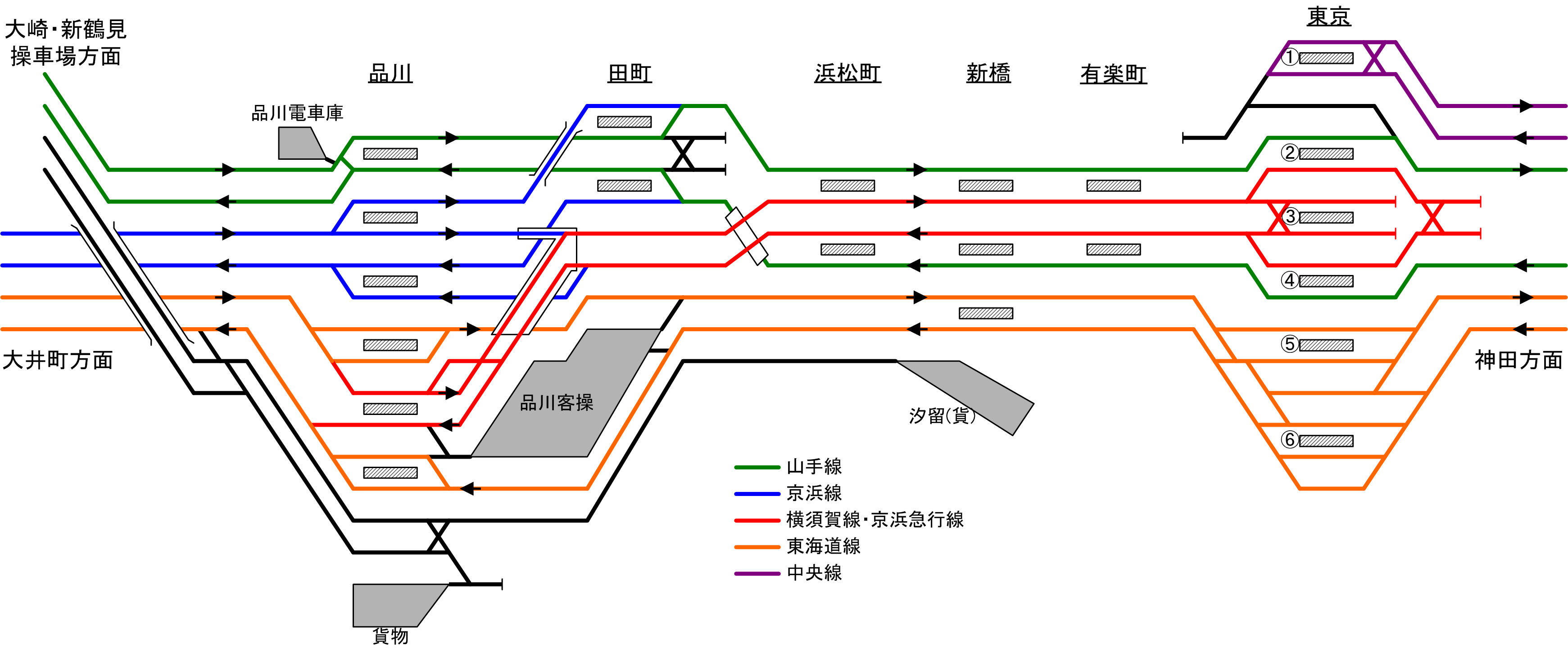 Track layout plan between Tokyo and Shinagawa for adding two more tracks before WW2. But this plan was cancelled and never realized.